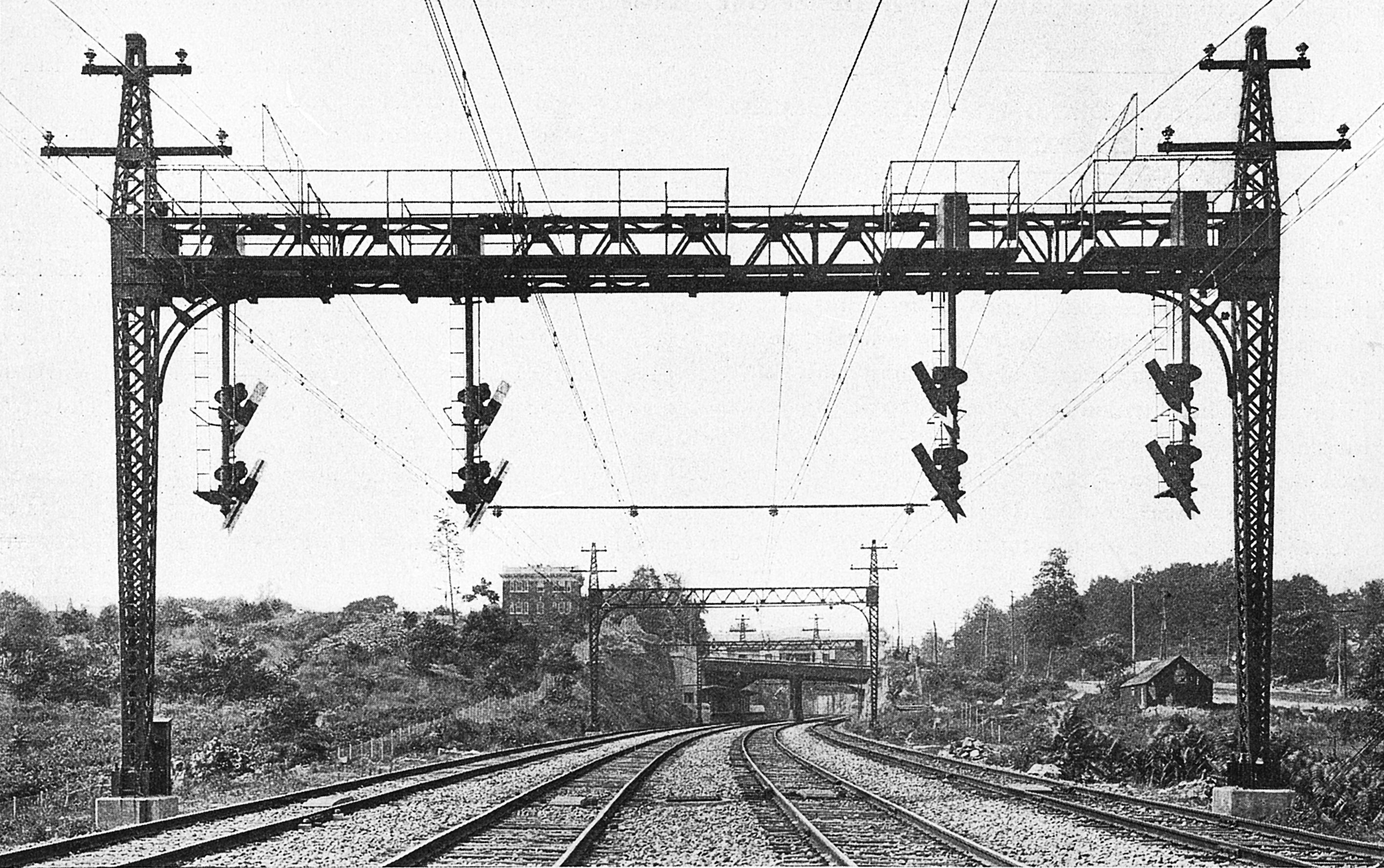 Signal bridge of the New York, Westchester and Boston Railway.The NYWB was built as a high-capacity rapid transit railroad although the area it served was rather rural.